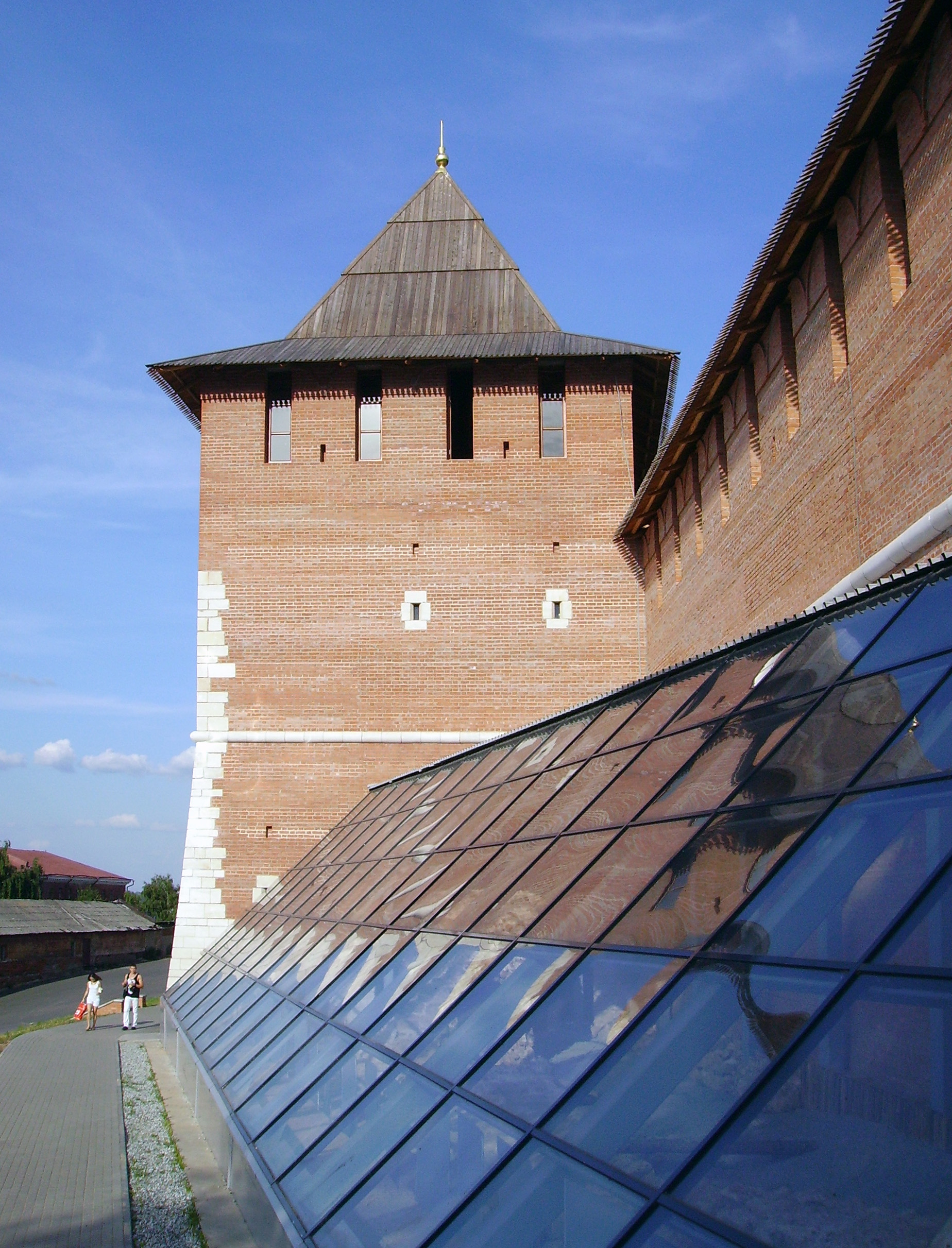 Zachatskaya Tower of Nizhny Novgorod Kremlin. Glassed roof above ruins of former Tower Foundation